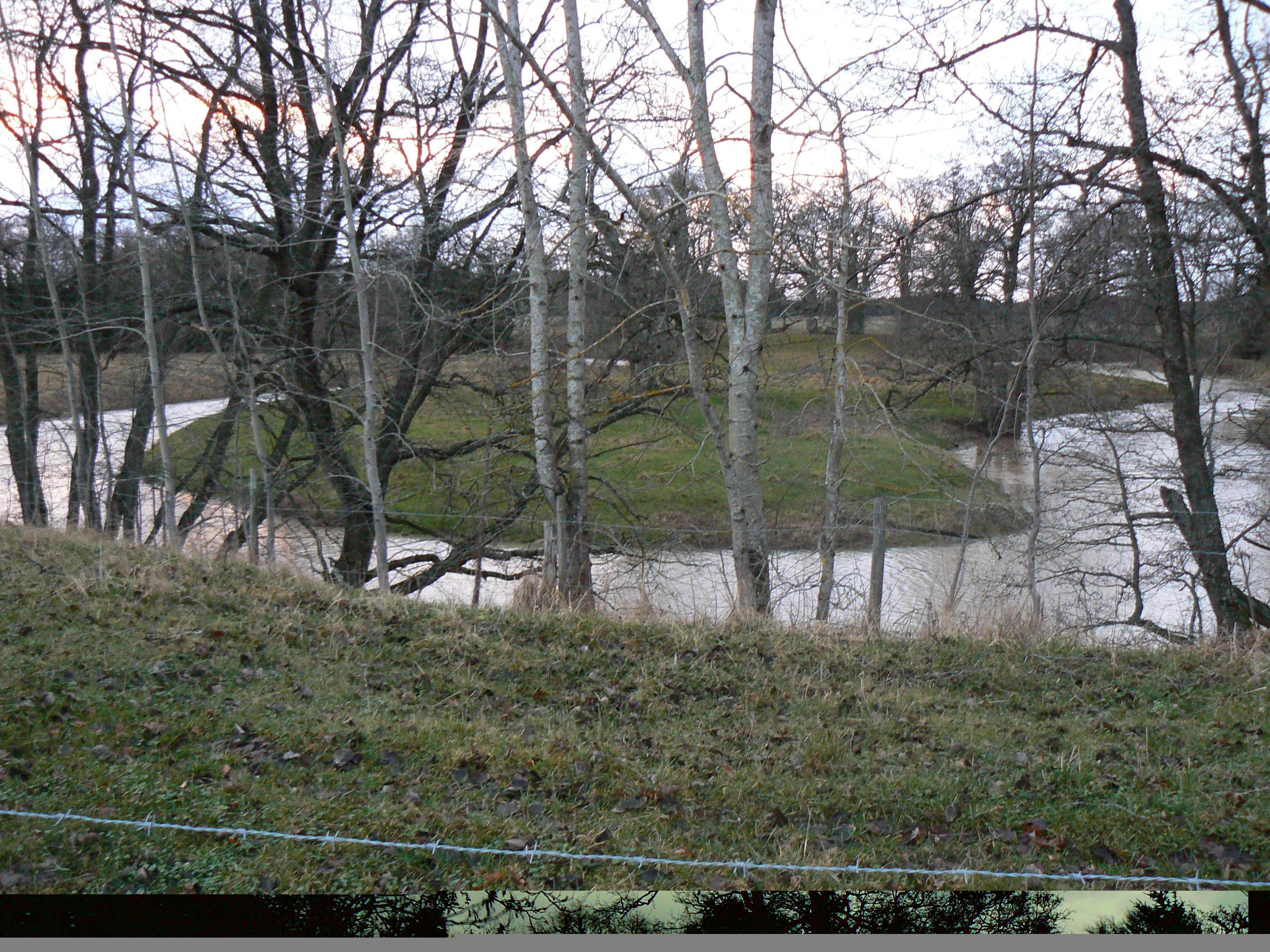 Kapellån, small river in Östergötland, Sweden. Photographed between Malmslätt and Vikingstad.